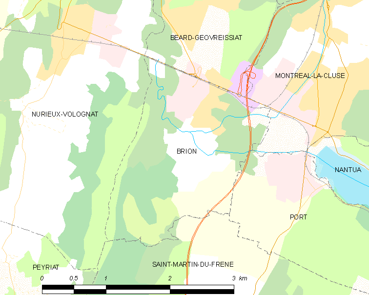 Map of French commune: Brion Map commune FR insee code 01063.png